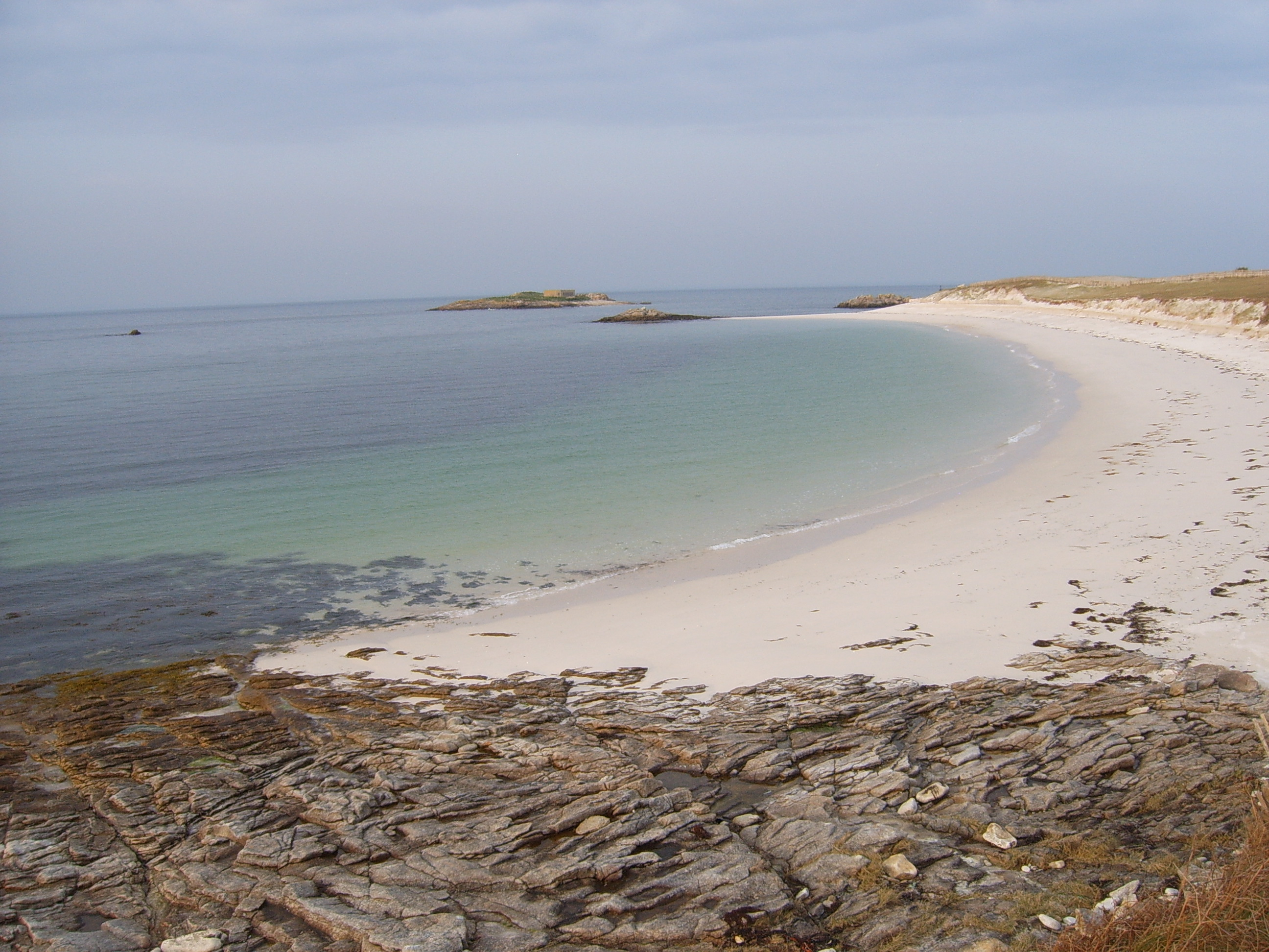 Glénan islands, a beach on St Nicolas